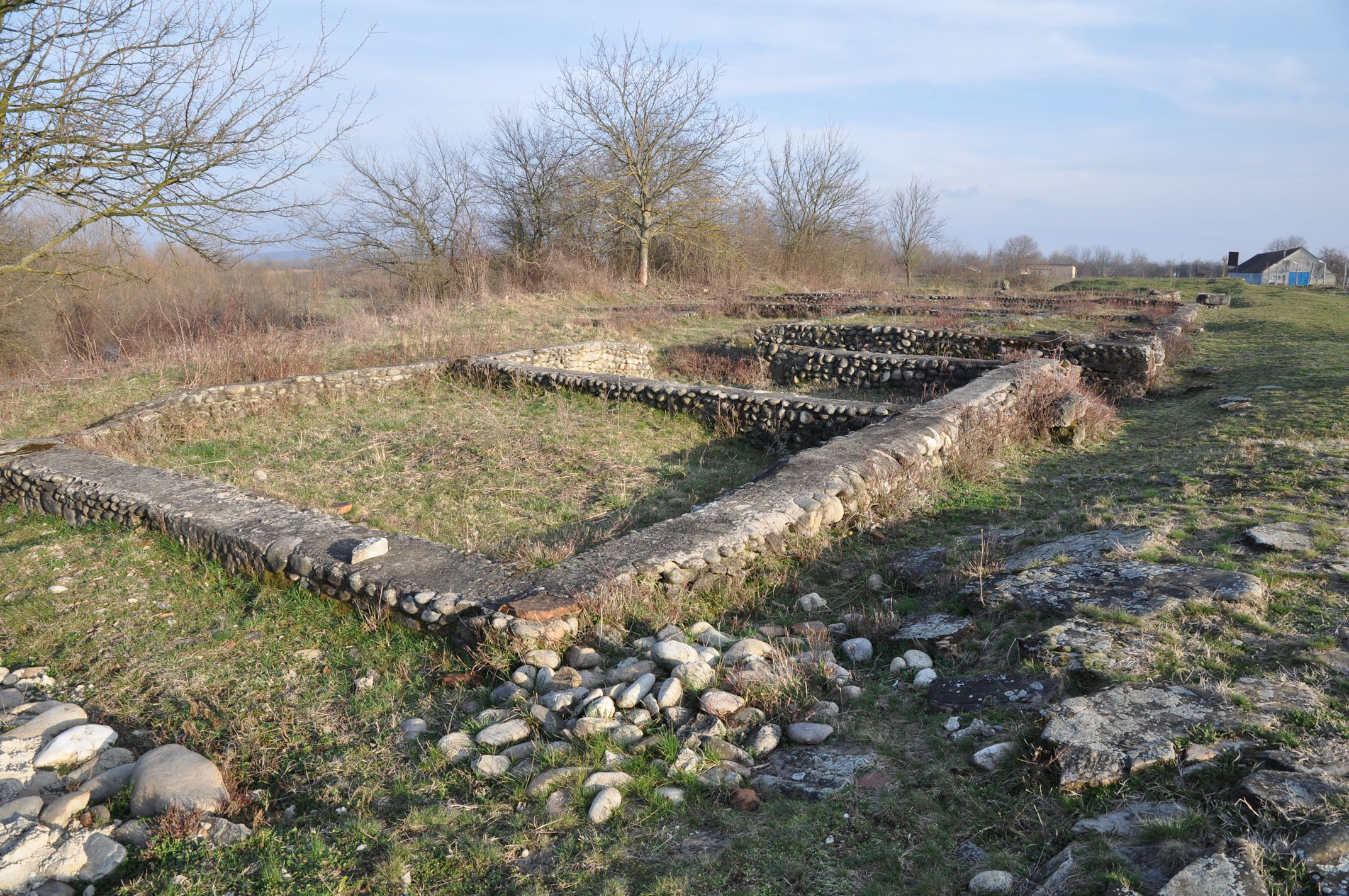 Municipium Tibiscum - present day Jupa, Romania